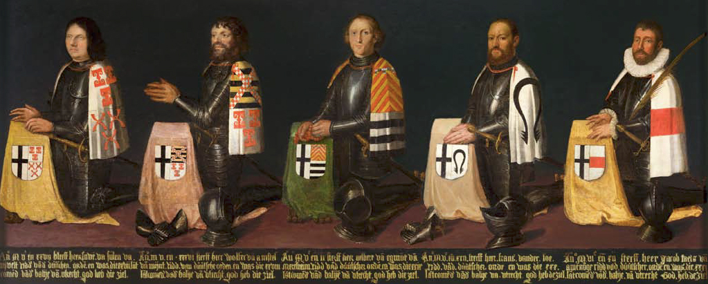 Fictitious portraits of the Commanders of Utrecht of the German Order